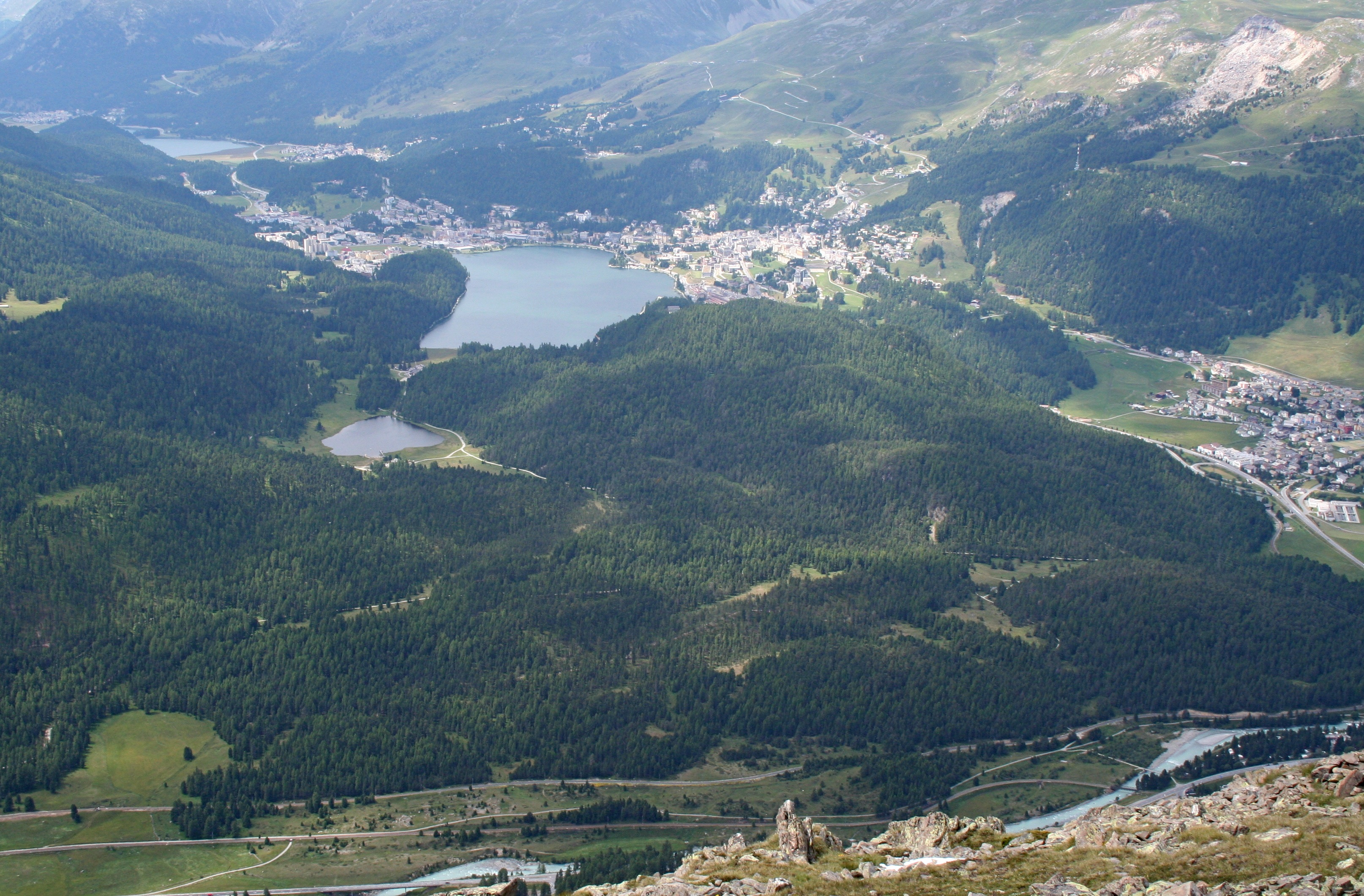 Lake and forest of Staz (Lej da Staz) in the center; Lake St. Moritz, St. Moritz, Lej da Champfèr in the background.